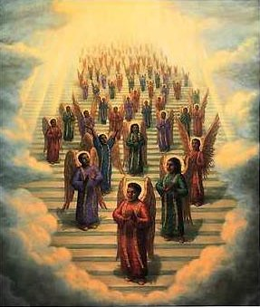 Choir of Black (negro) angels in heaven